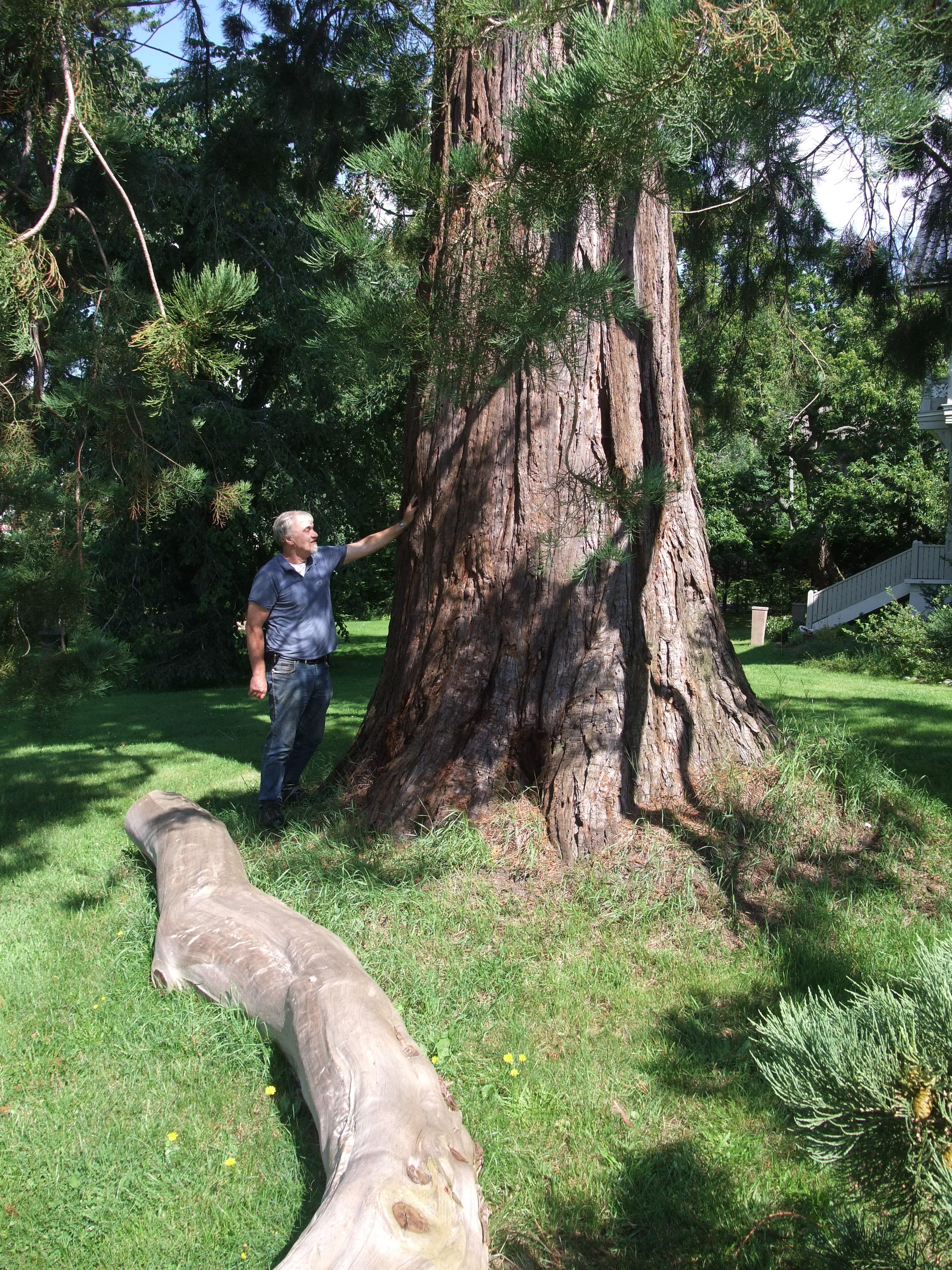 Sequoiadendron giganteum, Fevik, Norway